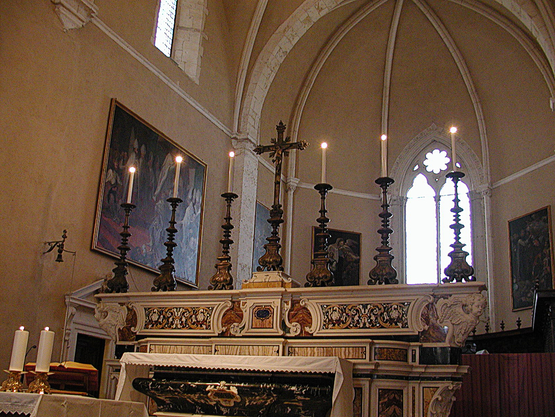 L'Aquila, Basilica di Santa Maria di Collemaggio. Main altar.